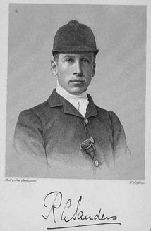 Robert Arthur Sanders, Master of Devon and Somerset Staghounds 1899